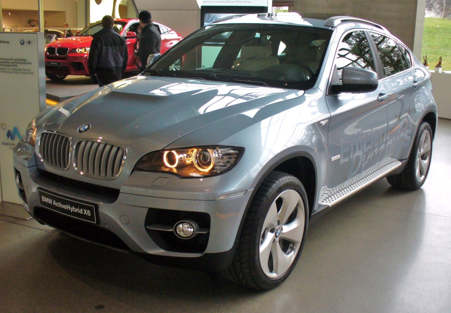 BMW ActiveHybrid X6